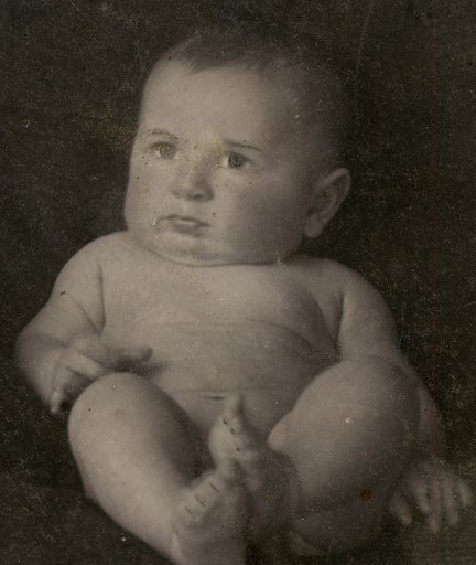 A photo of Givi Javakhishvili when he was a baby.